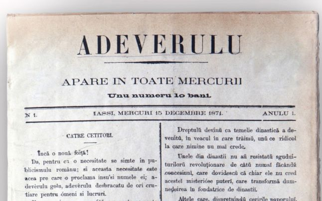 Adevărul newspaper, no. 01, year 1, published in Iași, Romania